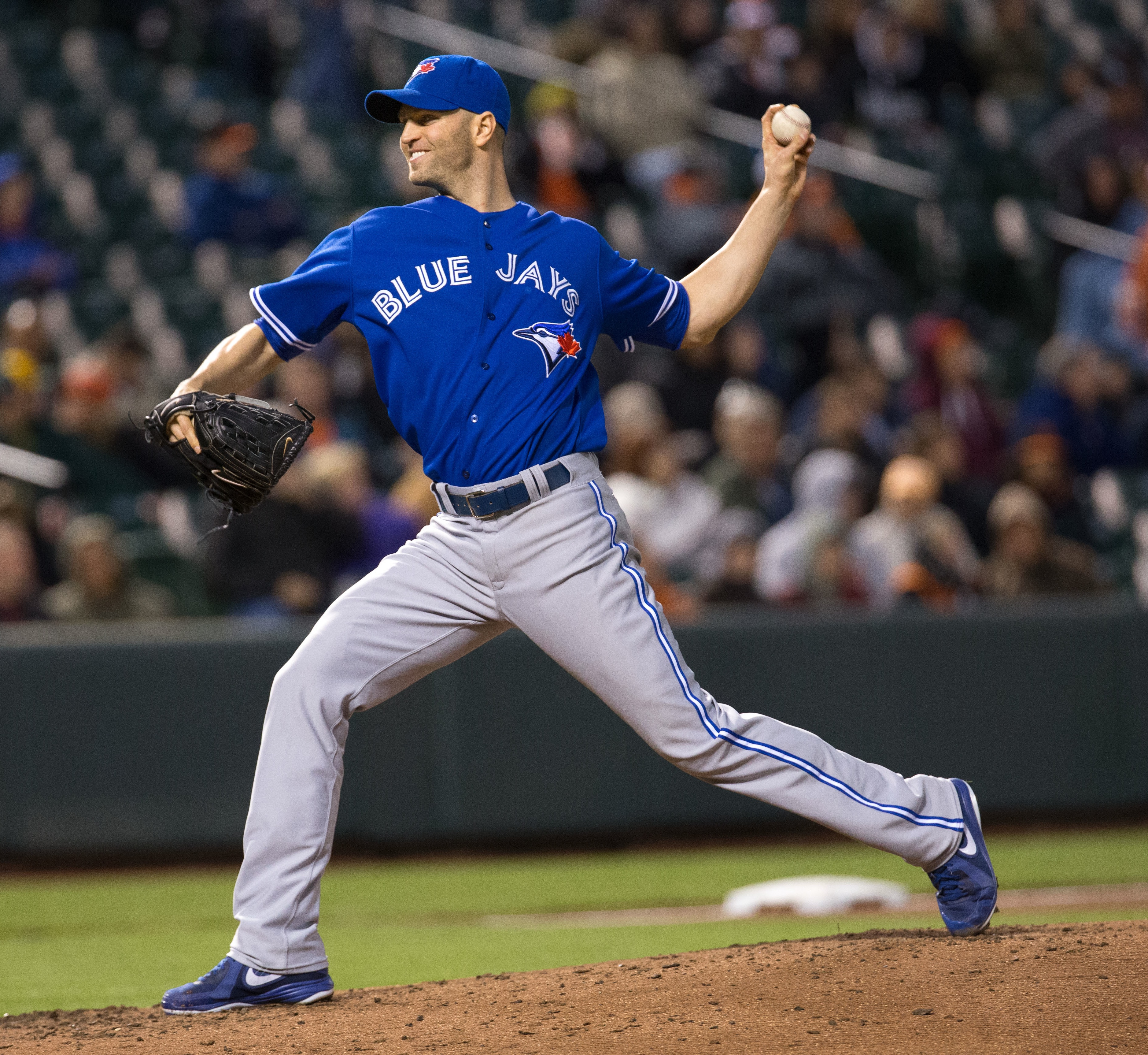 Toronto Blue Jays pitcher J. A. Happ – Toronto Blue Jays at Baltimore Orioles April 22, 2013